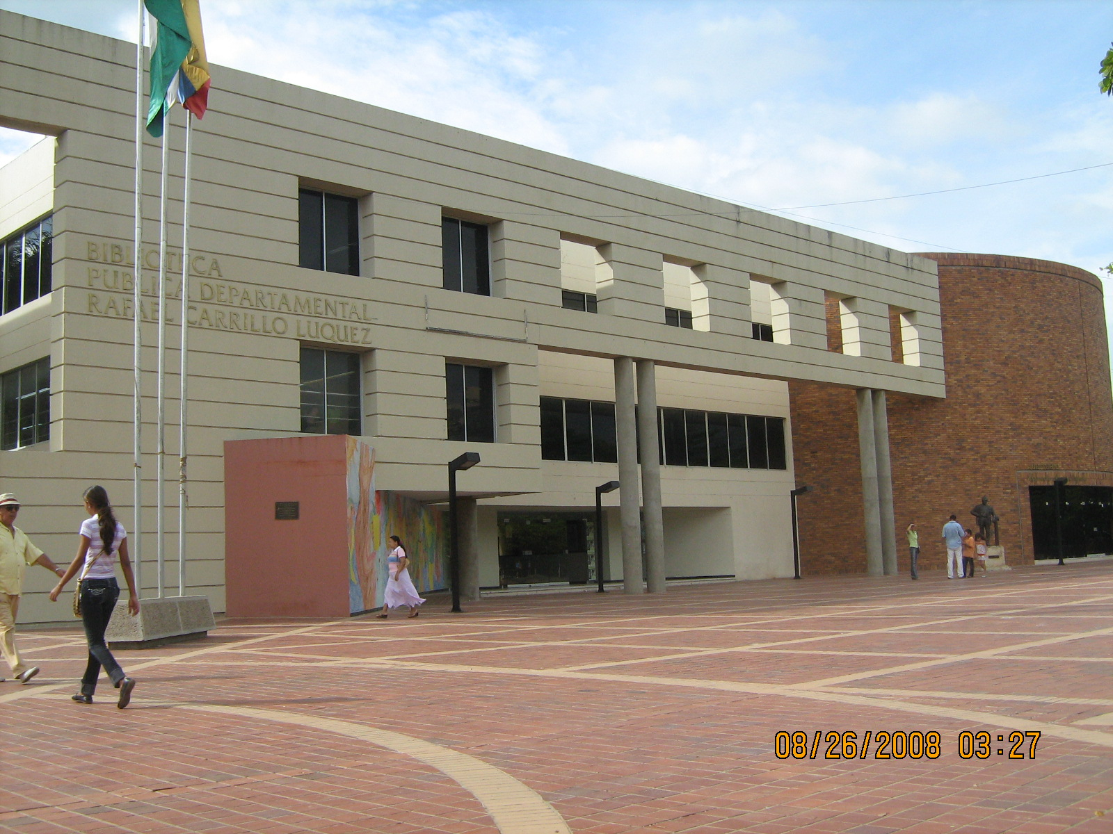 Library in Valledupar, Colombia